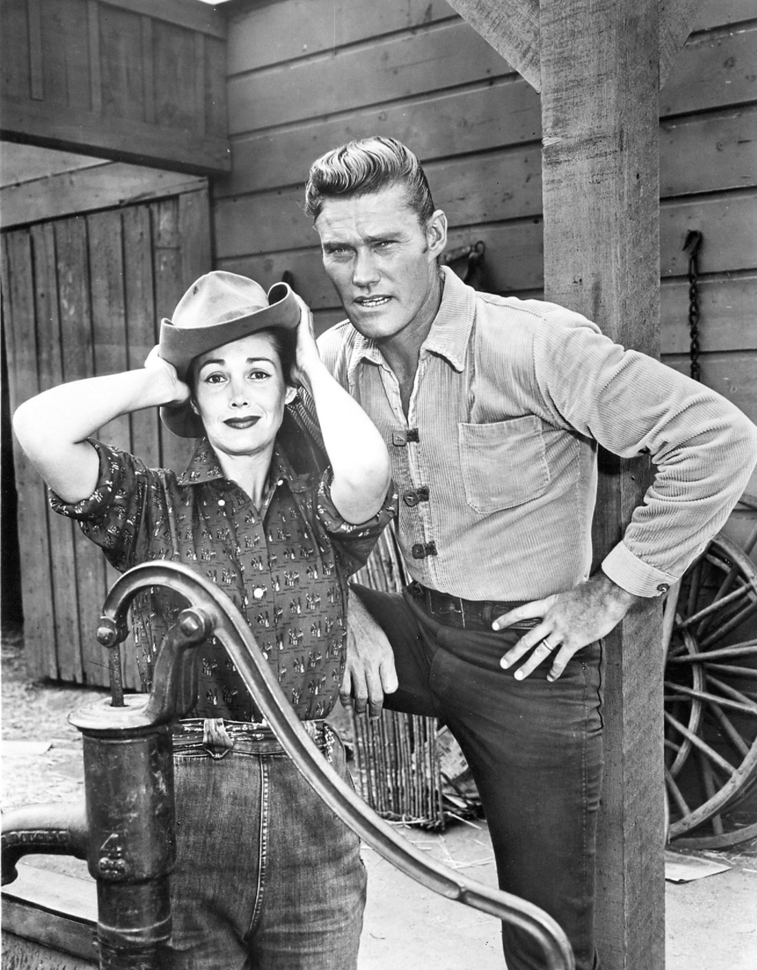 Photo of Joan Taylor and Chuck Connors from the television program The Rifleman.